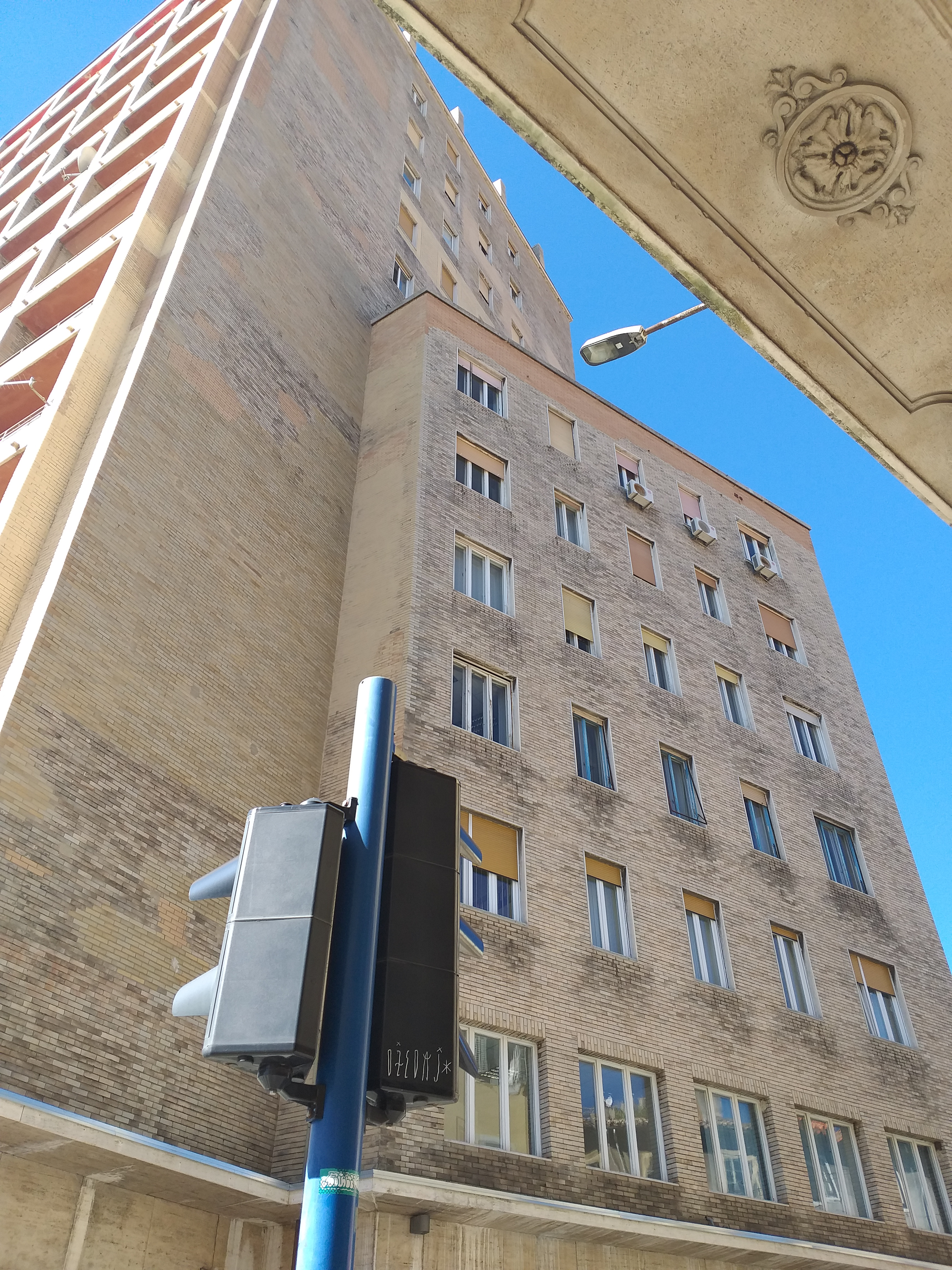 The first skysraper in Rijeka